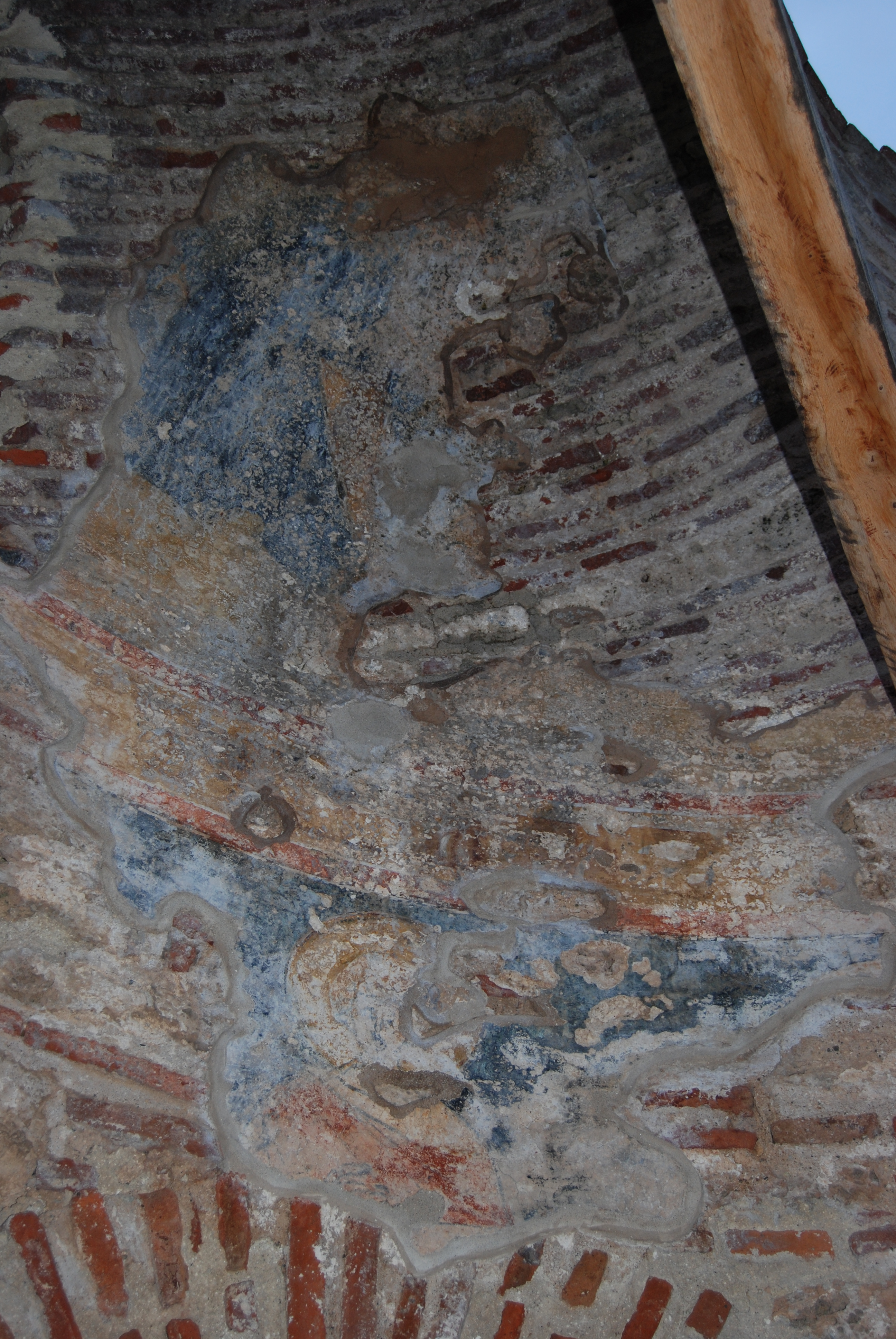 Ruins in Pili/Vineni, Greece